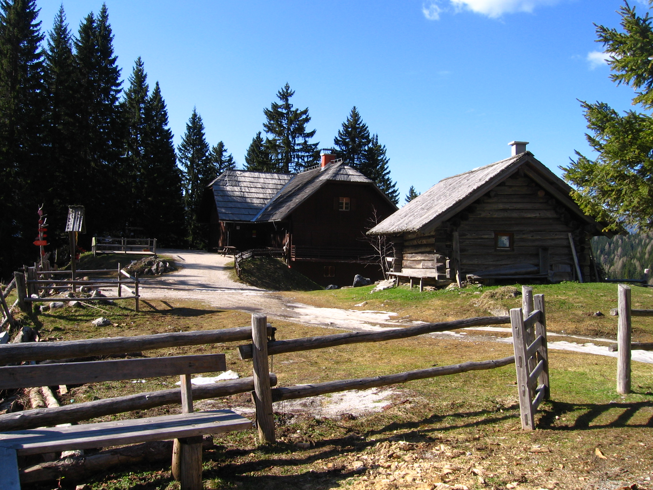 Grohat Hut under Mt. Raduha, northern Slovenia.